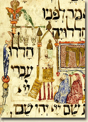 Illustration in the 14th-century Kaufmann Haggadah.